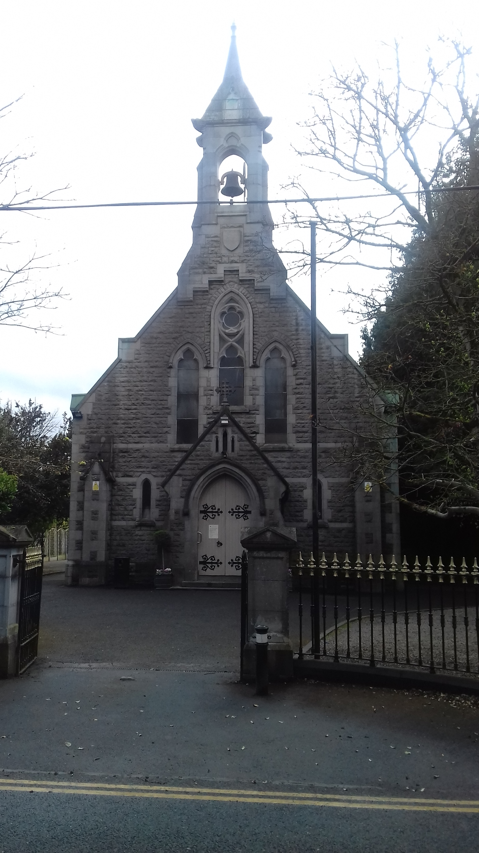 Catholic Church building on the Porterstown Road for the parish of St Mochta. Near Coolmine, Clonsilla and Laurel Lodge. Notice pinned to the door states that it is closed due to the COVID-19 pandemic lockdown.